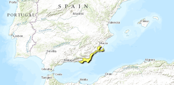 Map of ecoregion PA1219 - Southeastern Iberian shrubs and woodlands